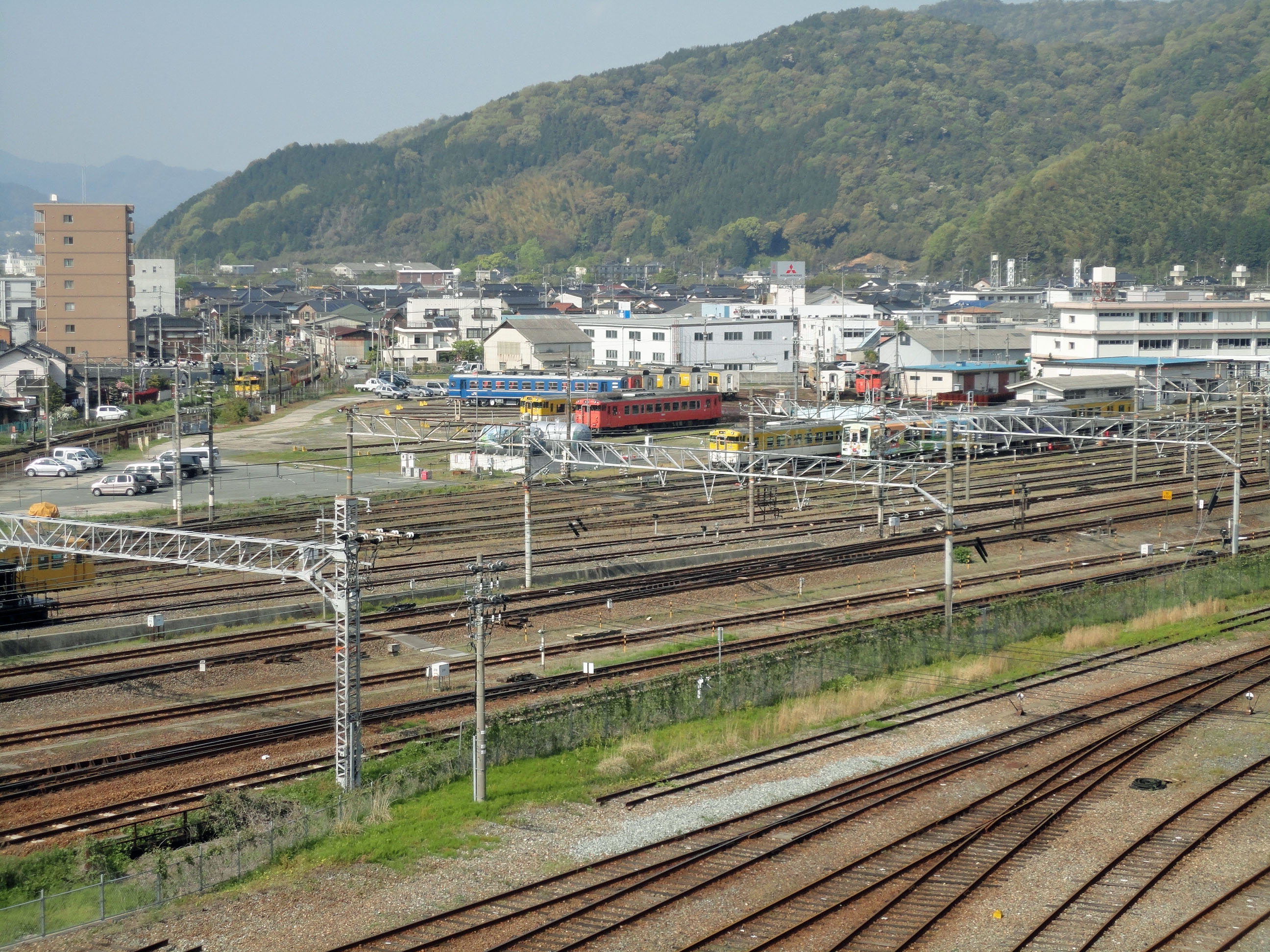 JR West Shimonoseki Car Maintenance Center Shin-Yamaguchi Branch